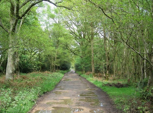 Restricted Byway - Bucklebury Common A managed hedge marking the boundary of a private property is just visible on the left.